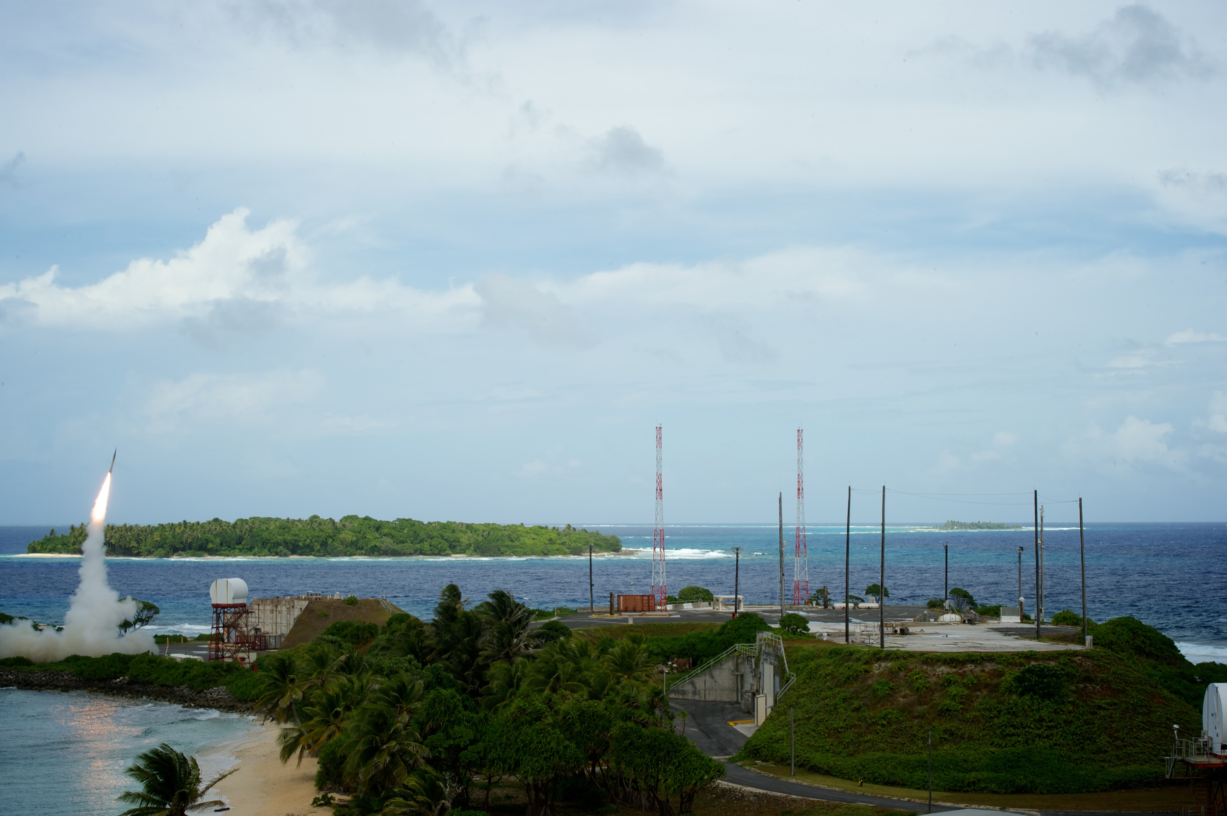 MECK ISLAND, Republic of the Marshall Islands (Oct. 25, 2012) A Terminal High Altitude Area Defense (THAAD) interceptor missile is launched from Meck Island to intercept a ballistic missile target during a Missile Defense Agency integrated flight test. (U.S. Navy photo/Released) 121025-N-ZZ999-002. Soldiers from A Battery, 4th Air Defense Artillery (Terminal High-Altitude Area Defense [THAAD]), 11th Air Defense Artillery Brigade launch a THAAD interceptor from Meck Island to engage a ballistic missile target during a historic joint training exercise on 24 October 2012.